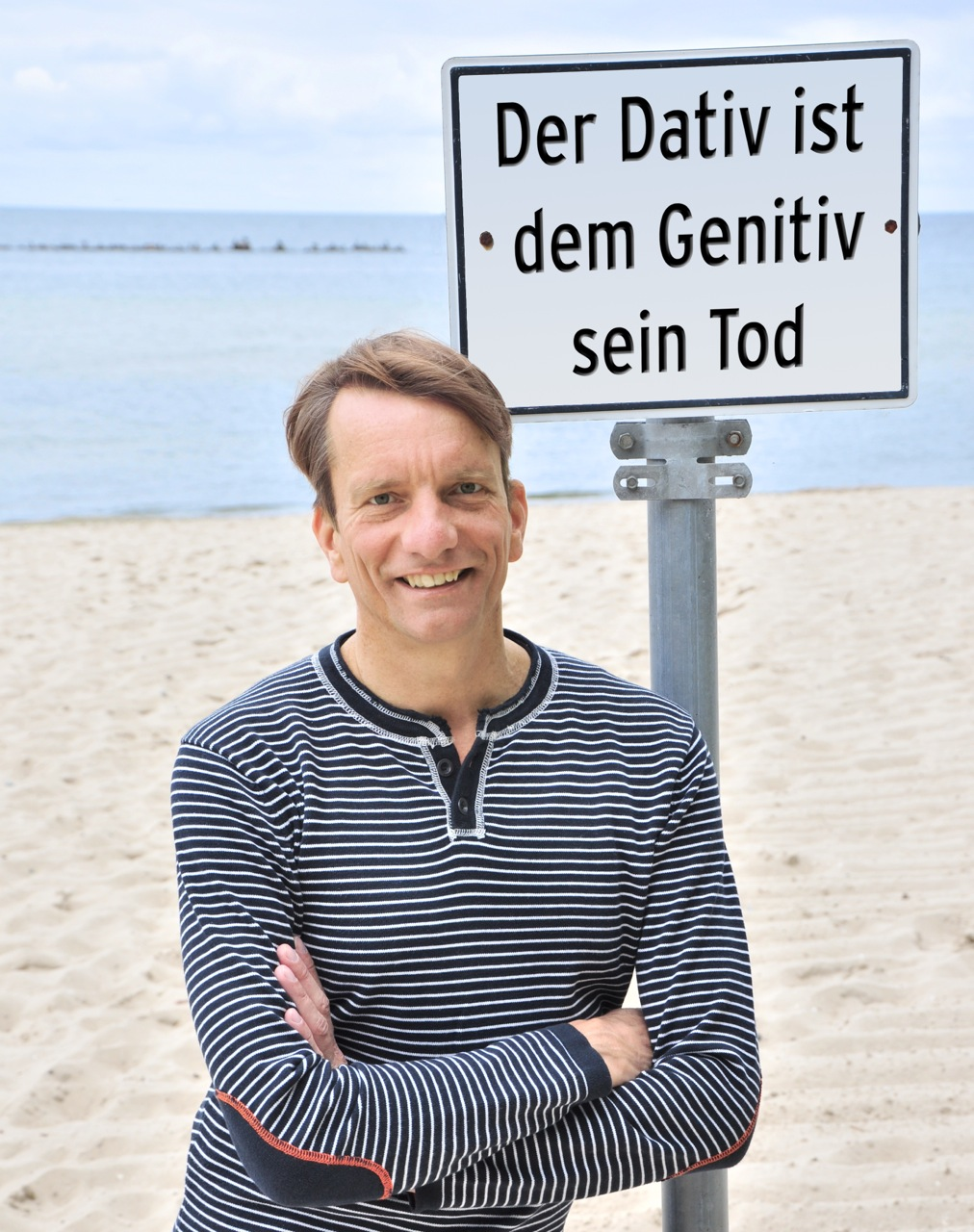 German author Bastian Sick, creator of the bestselling book serie "Der Dativ ist dem Genitiv sein Tod"�